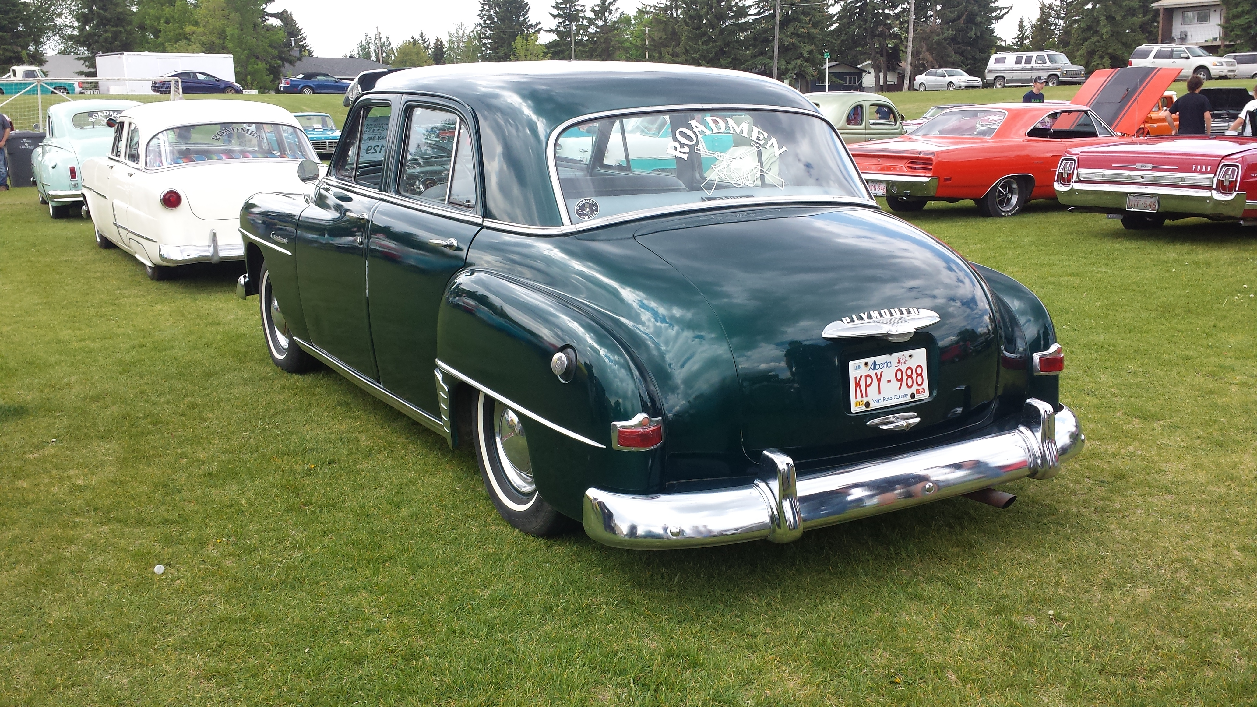 Plymouth Cranbrook